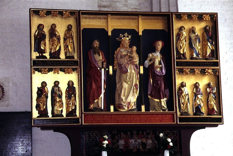 Thisted Kirke (church)